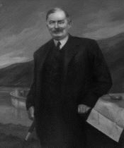 Federico Moyua Salazar, Mayor of Bilbao, Spain